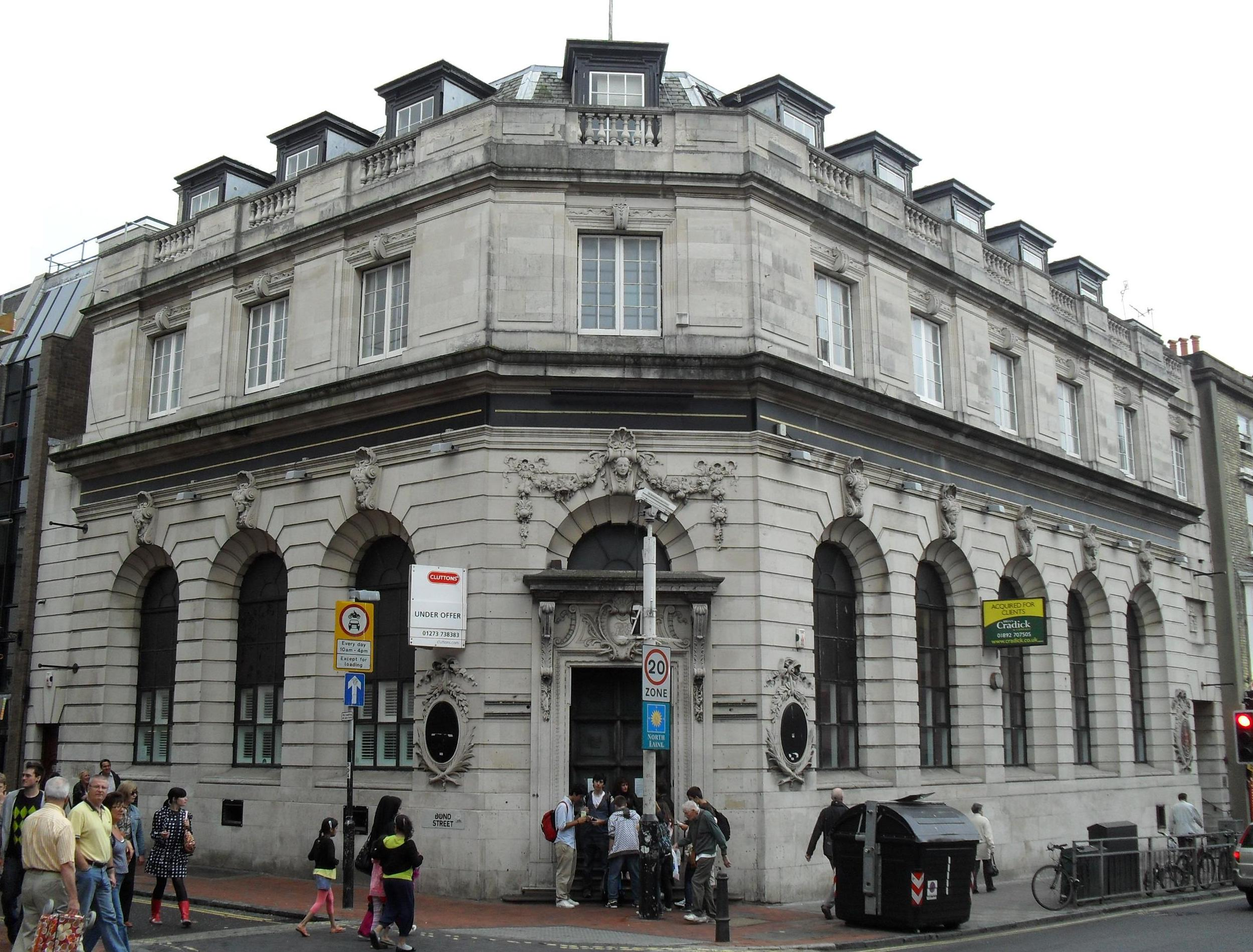 Former National Provincial Bank branch, 155 North Street, Brighton, City of Brighton and Hove, England. Designed in the Louis XVI style by Clayton & Black in 1923. Now a pub. Listed at Grade II by English Heritage (IoE Code 480944)